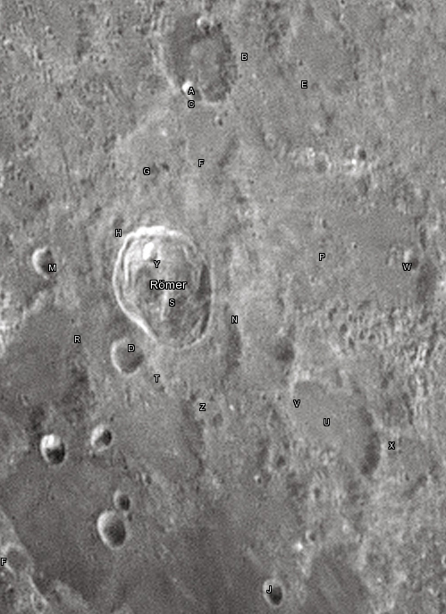 Romer lunar crater as seen from Earth with satellite craters labeled